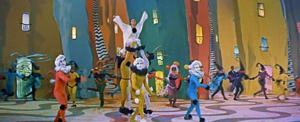 Leslie Caron (center, as Pierrot) in Daddy Long Legs - trailer (cropped screenshot)